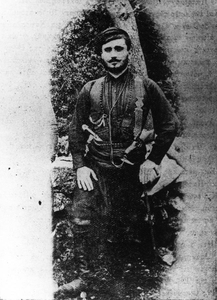 Georgios_Galanis